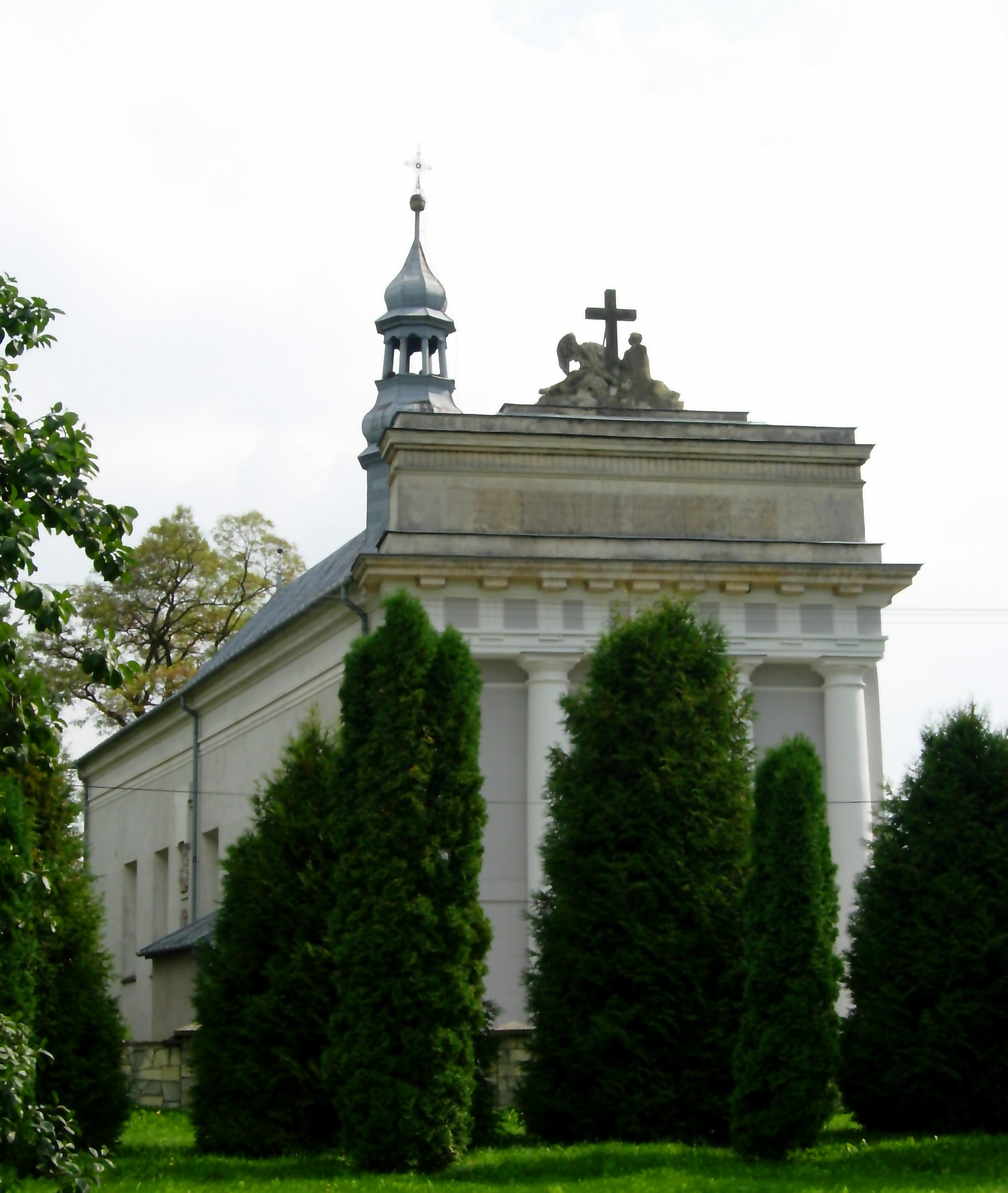 Church in Krzyżanowice Dolne, Poland